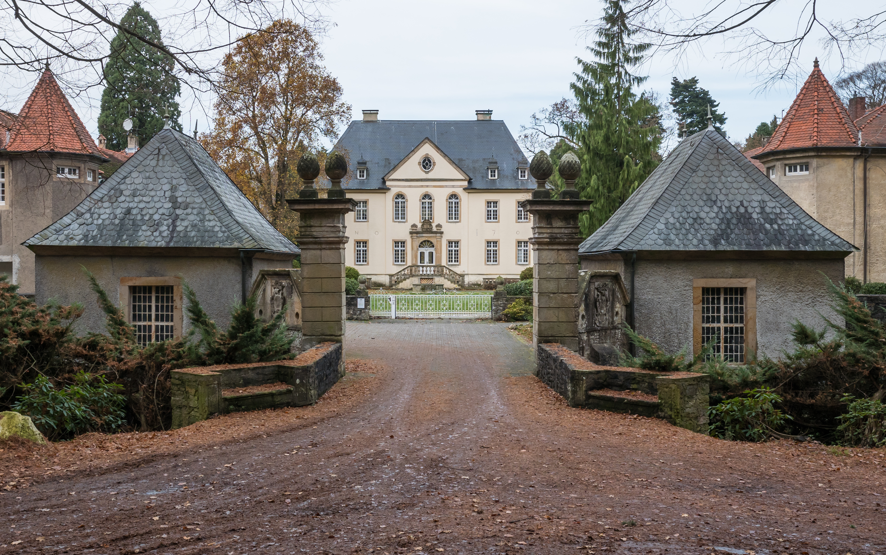 Estate Gut Leye, manour house. Osnabrück-Atter, Lower Saxony, Germany